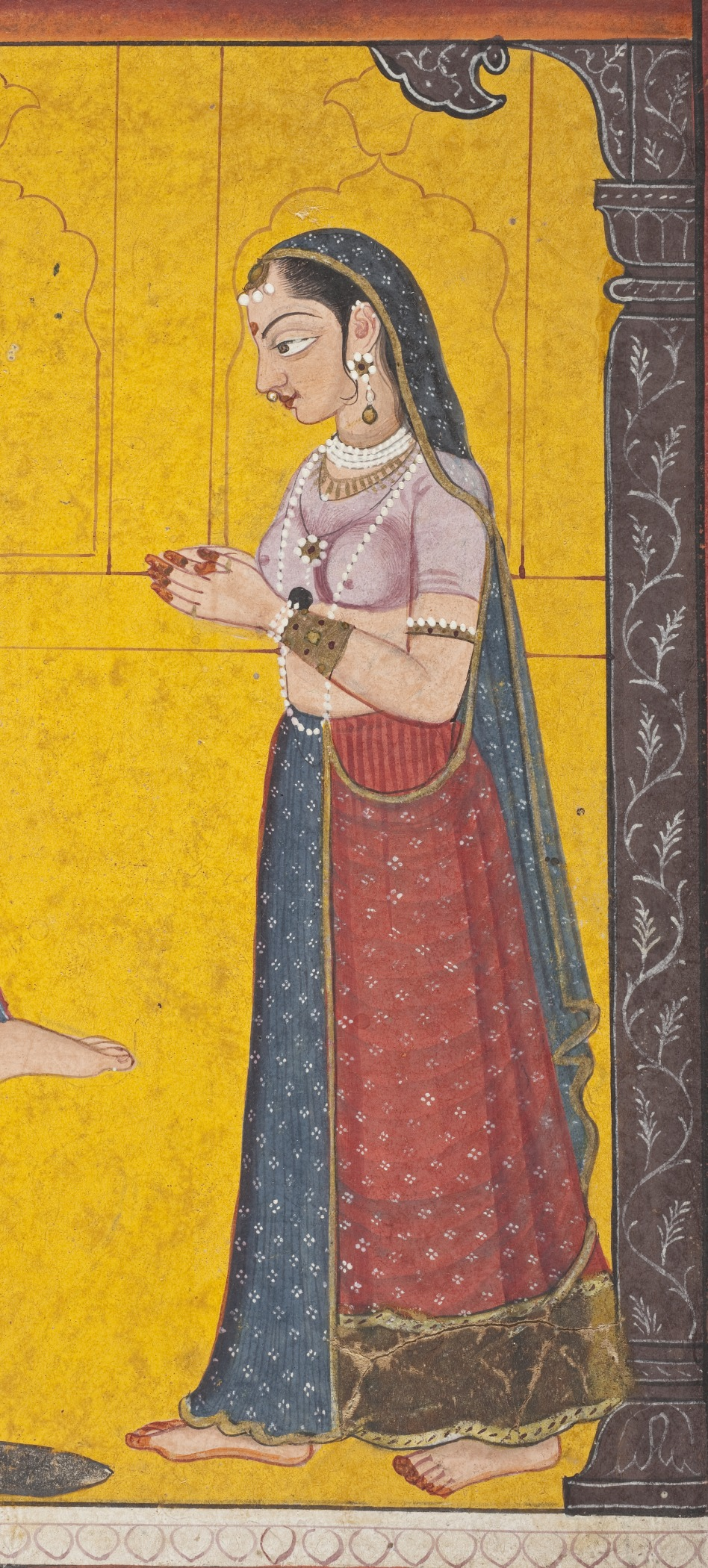 India, Himachal Pradesh, Nurpur, circa 1760-1770 Drawings; watercolors Opaque watercolor and gold on paper Sheet: 5 7/8 x 9 1/2 in. (14.92 x 24.13 cm); Image: 4 3/4 x 9 1/4 in. (12.07 x 23.5 cm) From the Nasli and Alice Heeramaneck Collection, Museum Associates Purchase (M.82.42.8) South and Southeast Asian Art